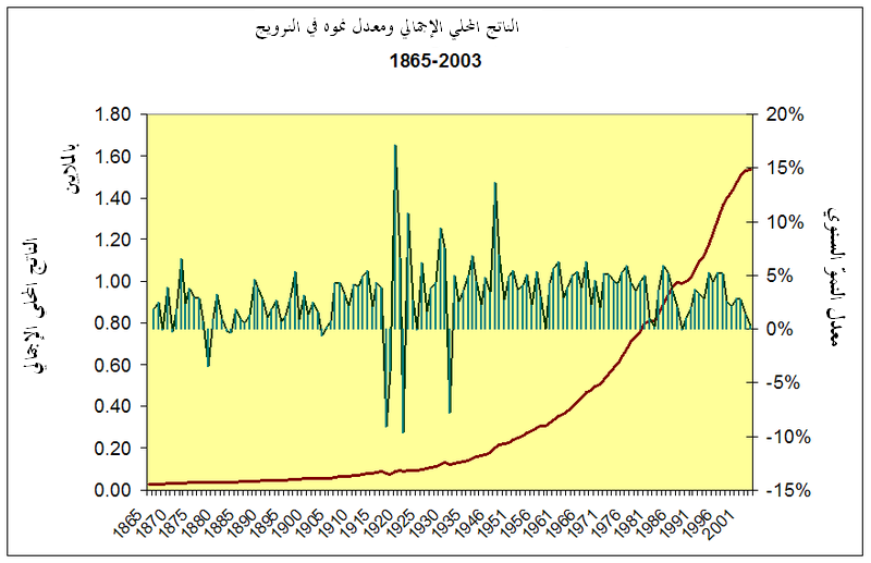 Gross domestic product, Norway 1865 - 2003. (Ar)